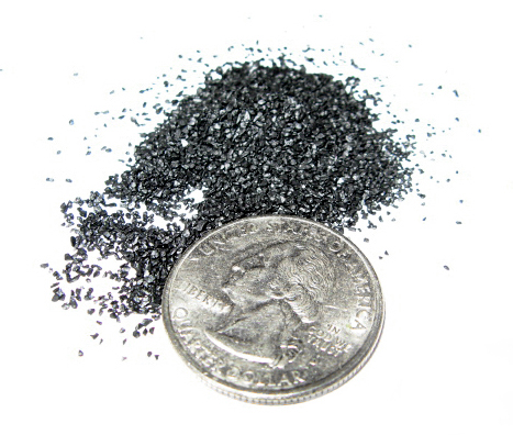 Black powder for muzzleloading rifles and pistols in FFFG granulation size. Quarter (diameter 24 mm) for comparison.